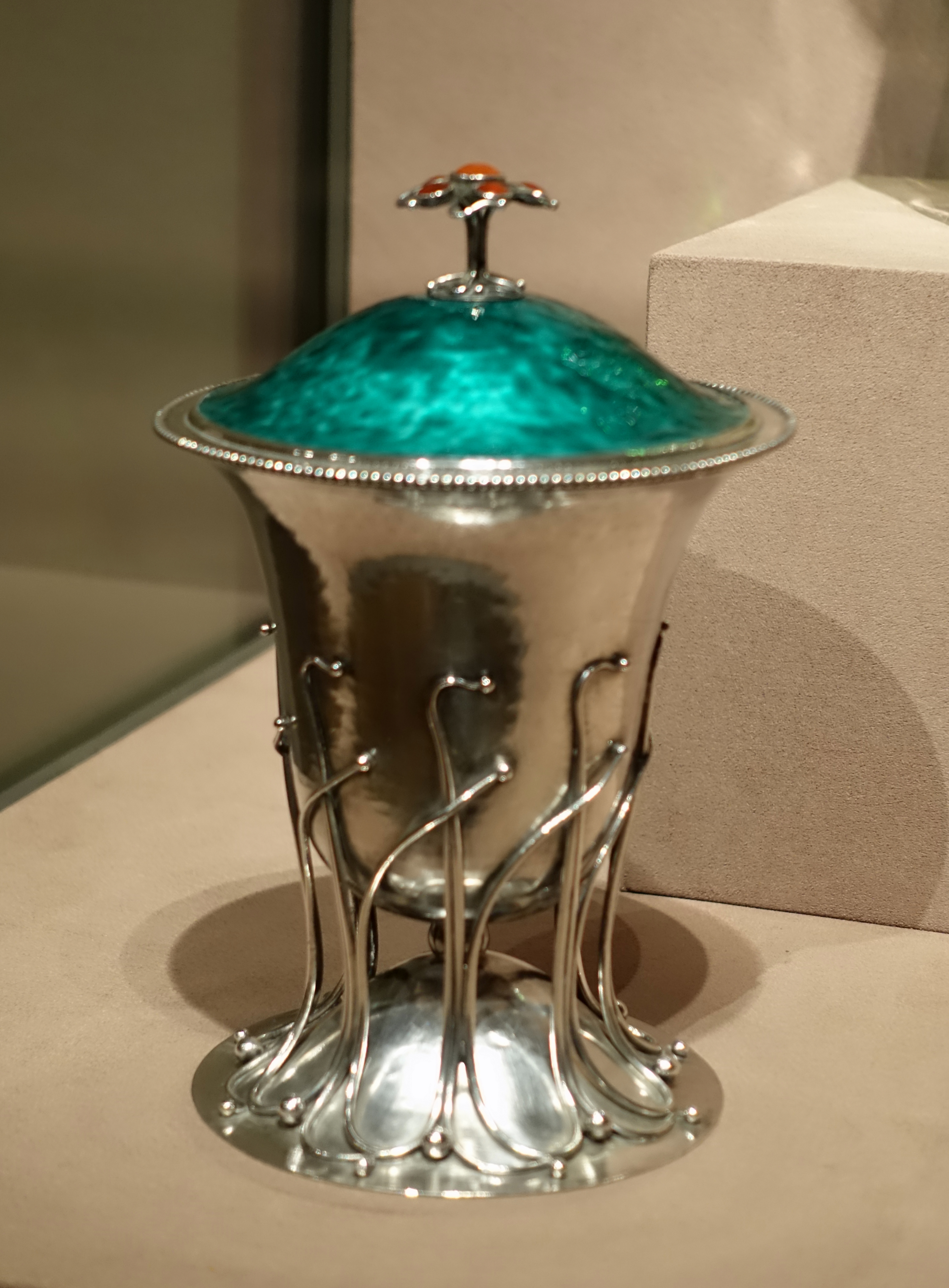 Exhibit in the Dallas Museum of Art, Dallas, Texas, USA.